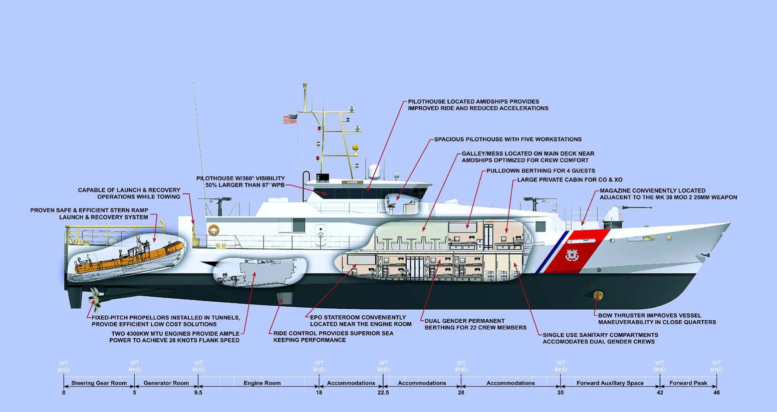 Proposed modification to the Damen Stan 4708 patrol vessel for possible use in the USCG. Vessels of the closely related Damen Stan 4708 patrol vessels employed by other countries, mount a fire-fighting water cannon where the USCG design mounts a 25mm autocannon. Vessels of closely related 4708 class, employed on customs, fishery or environmental protection patrols for other nations carry a crew about half the size the USCG plans.